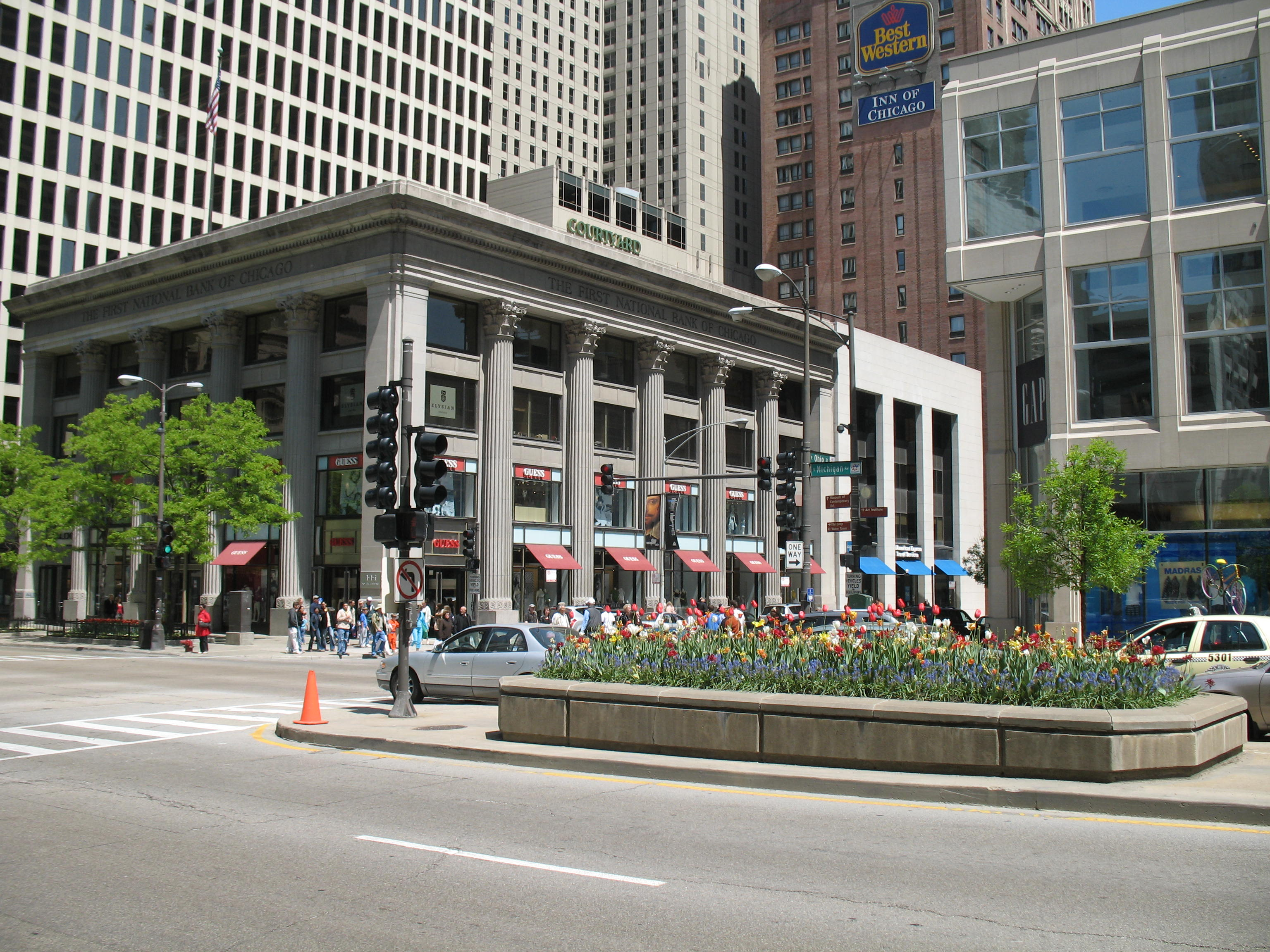 605 N Michigan Ave, Chicago. Guess - American Express - Gap